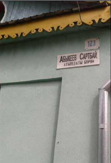 Abykeev streеt